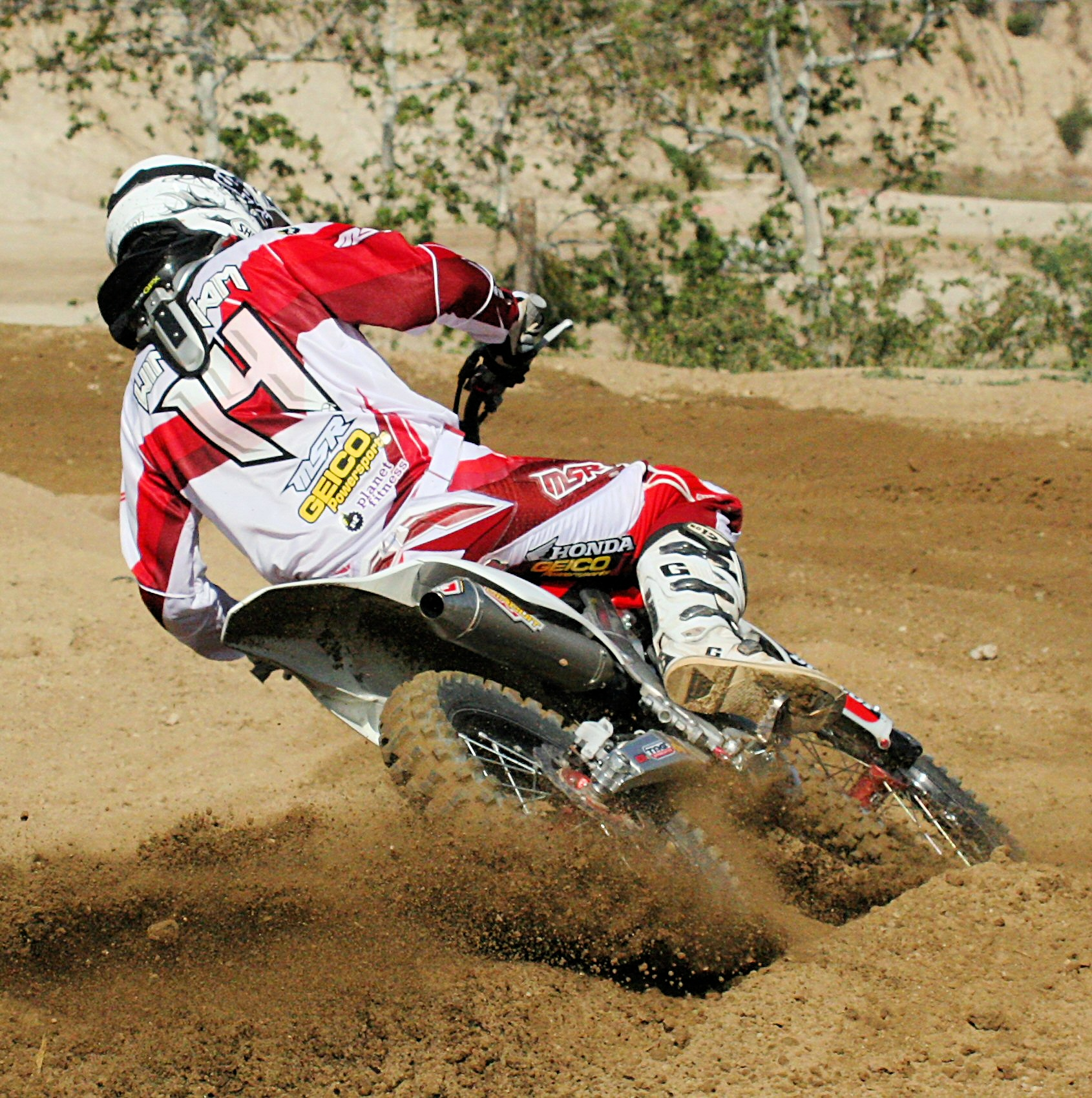 Kevin Windham at Glen Helen Raceway, in San Bernardino, California, United States